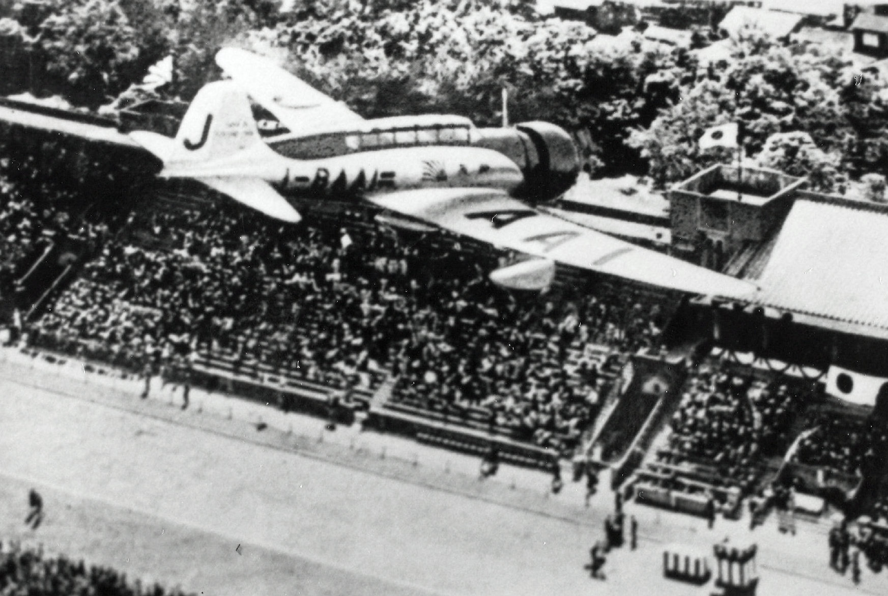 Mitsubishi Karigane J-BAAI sponsored by the Asahi Shimbun newspaper in flight